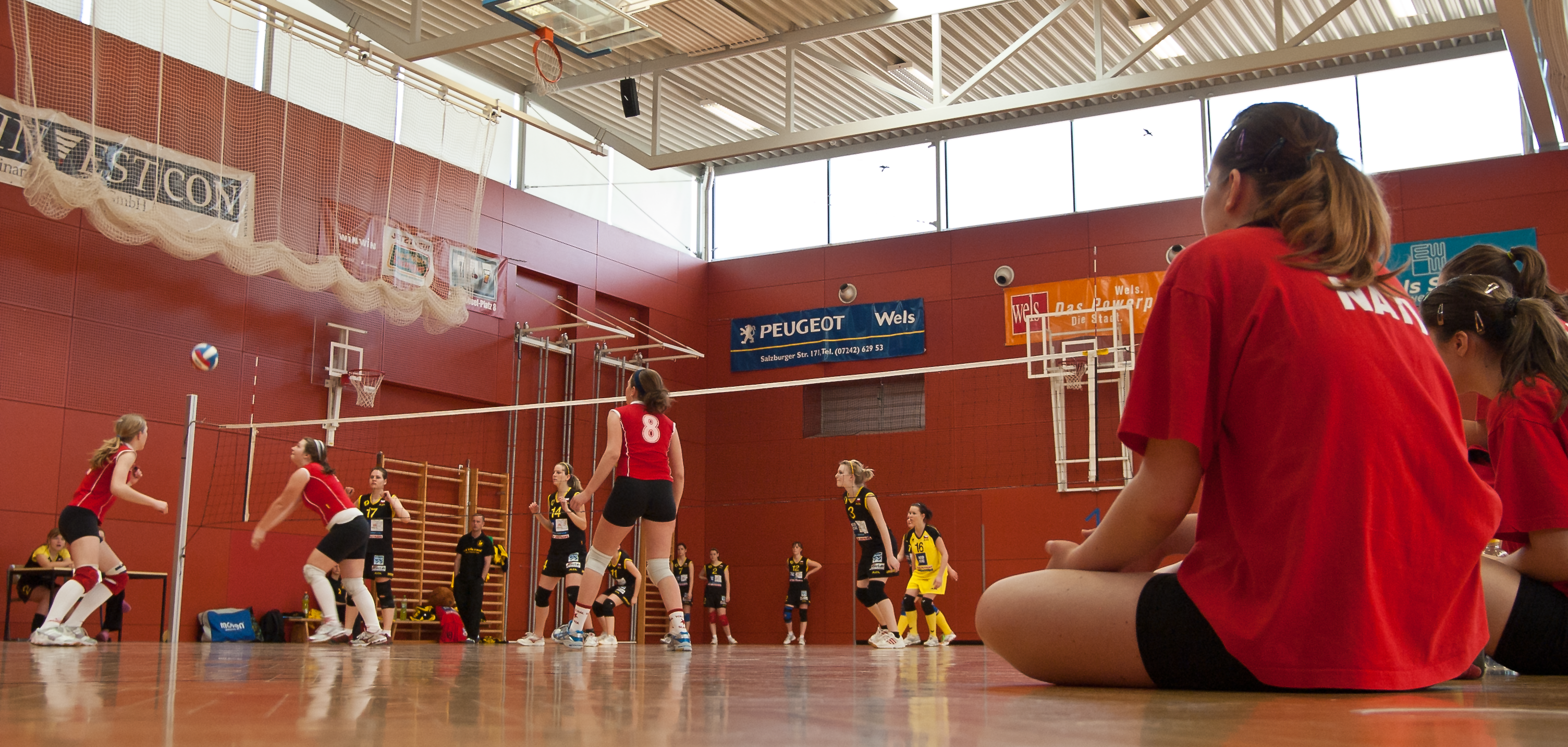 Volleyball youth tournament Sportunion McDonalds Supervolley Wels